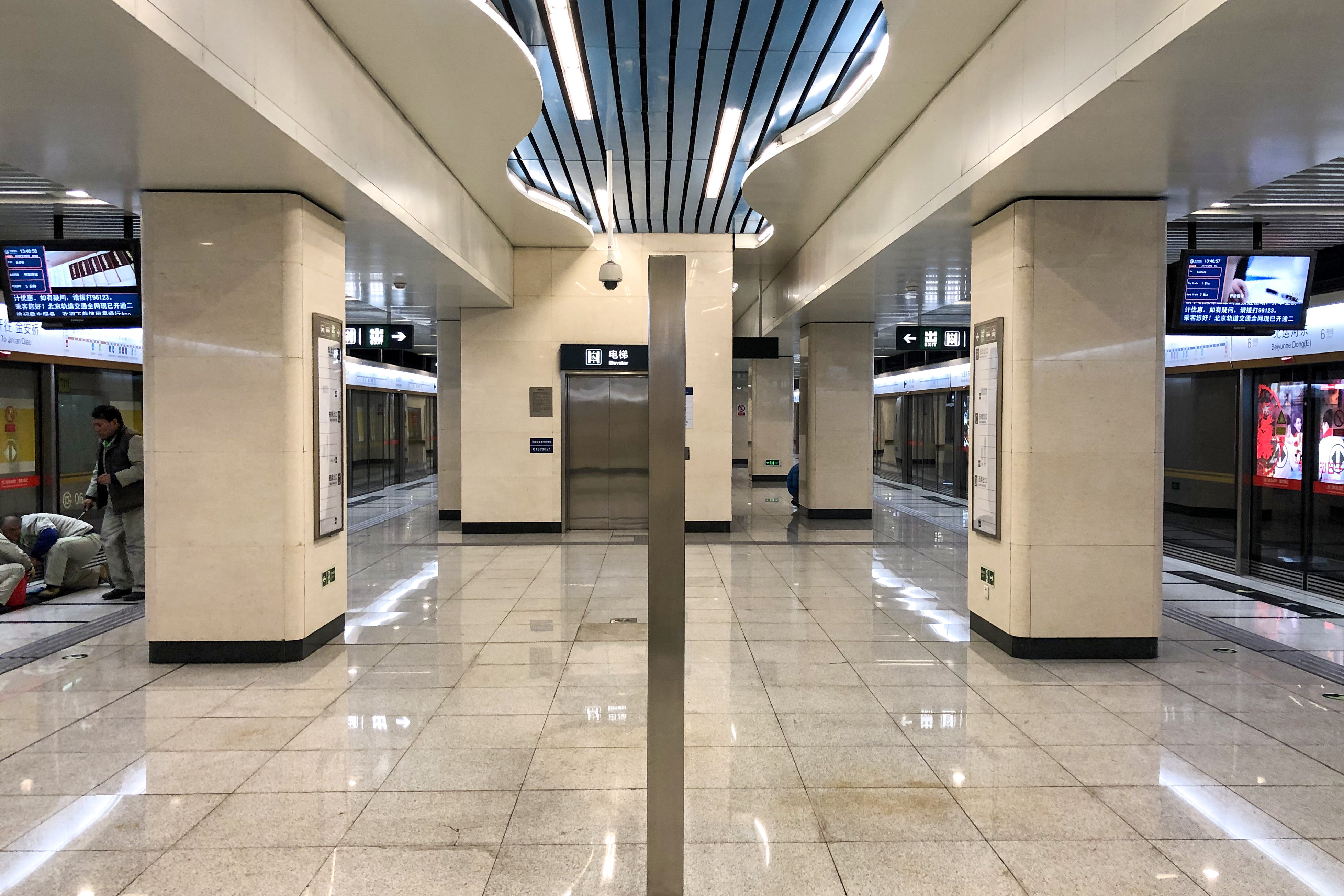 Just opened a few days ago.